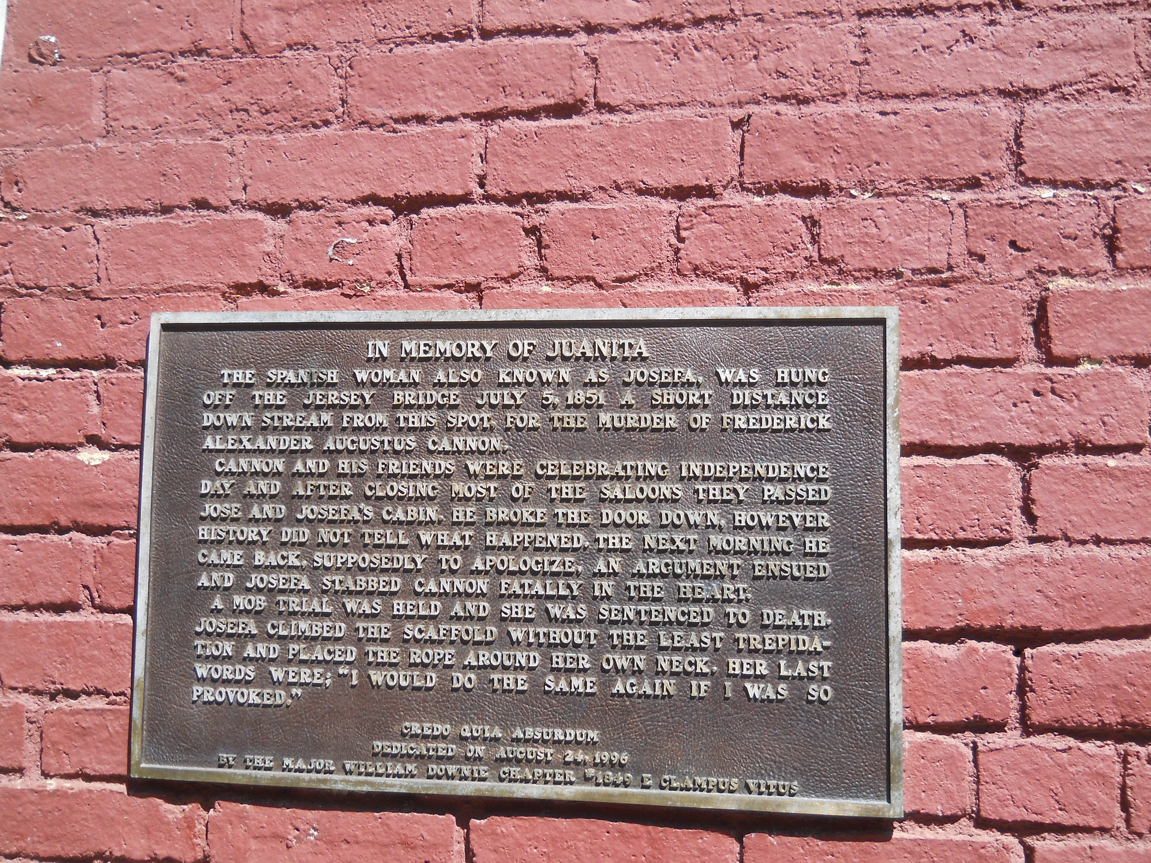 Plaque on the Craycroft Building in Downieville, California, commemorating the lynching of Josefa Segovia from the adjacent bridge